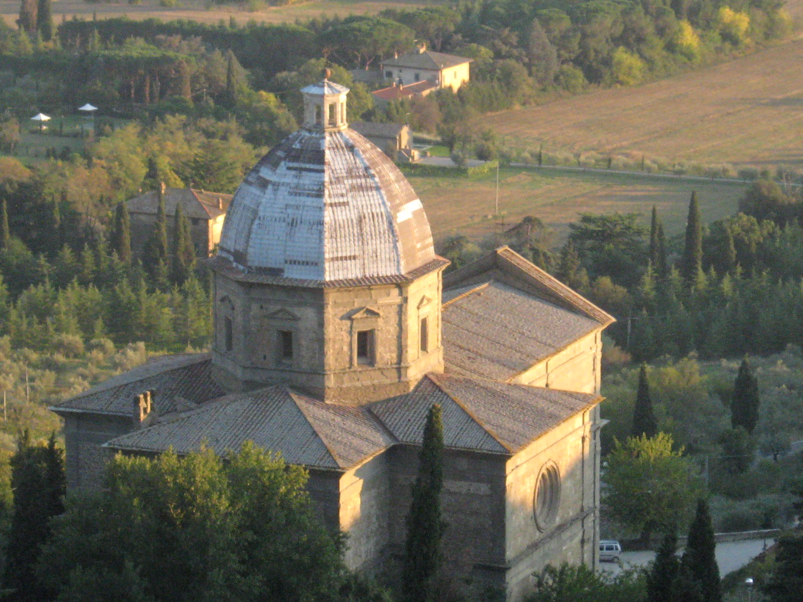 Church of Santa Maria delle Grazie al Calcinaio - View from Cortona